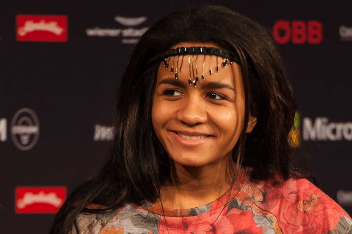 Eurovision Song Contest Vienna 2015: Aminata